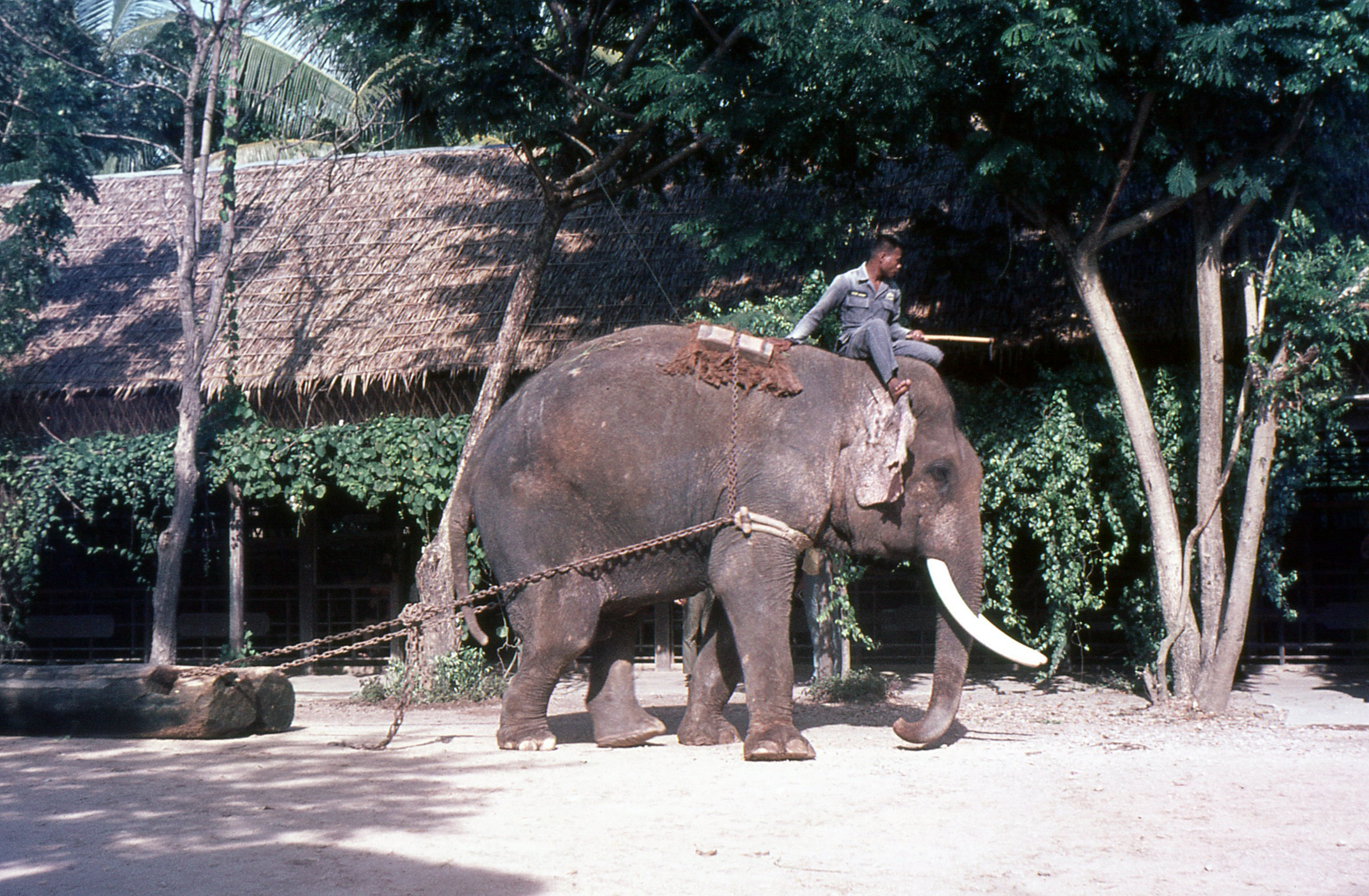 Working elephants still a common daily sight in Thailand when these were captured on duty in 1969. Despite appearances they were very well respected and cared for, and were easy masters of the tasks assigned to them. Camera: EXA 35mm SLR. Film: Agfa CT18.